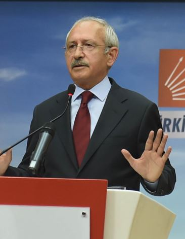 CHP party leader Kemal Kılıçdaroğlu giving a statement after the November 2015 general election in Turkey